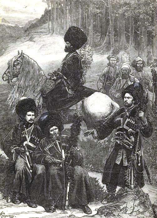 Natives of the Caucasus, north of Mingrelia.